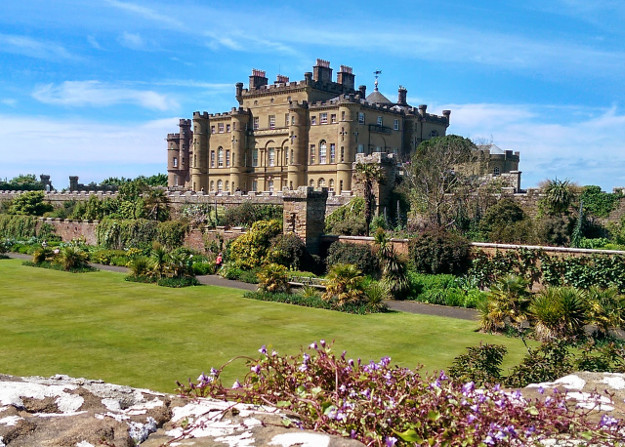 Culzean Castle, Ayrshire